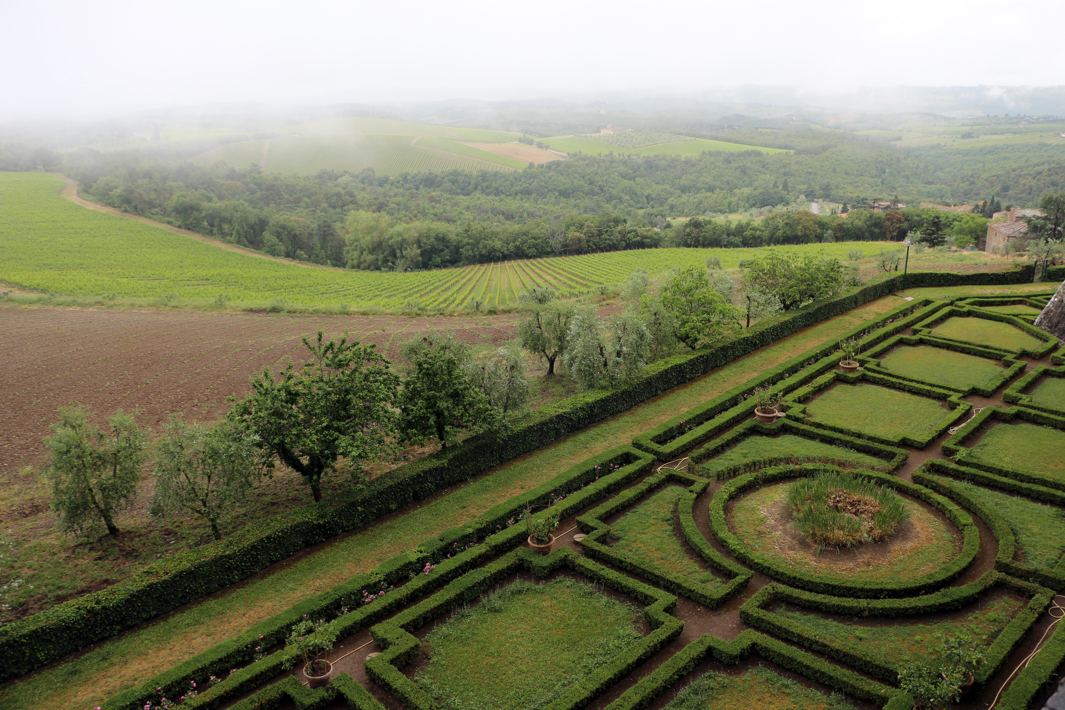 Castello di Brolio